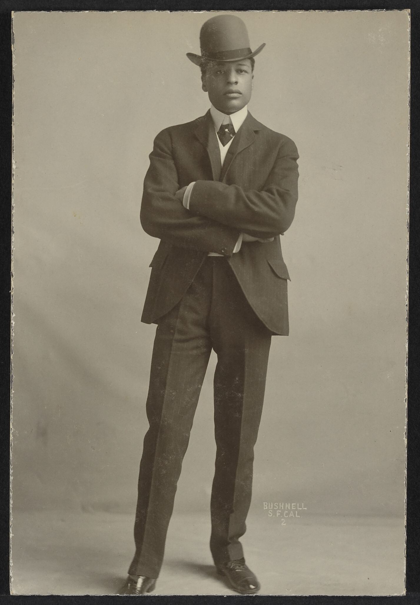 Cabinet card image of American minstrel performer Bert Williams (1874-1922). TCS 1.1120, Harvard Theatre Collection, Harvard University